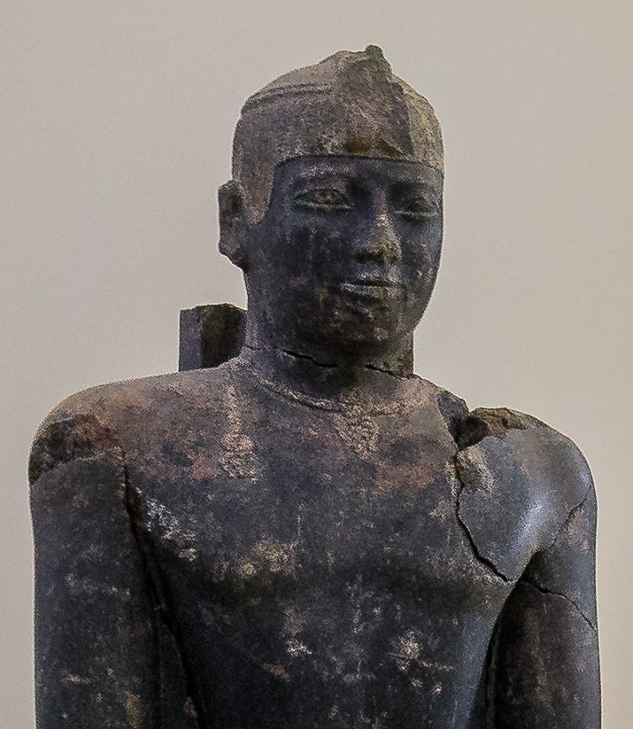 Statue of Tantamani in the National Museum of Sudan. Tantamani was the last king of the 25th Dynasty.